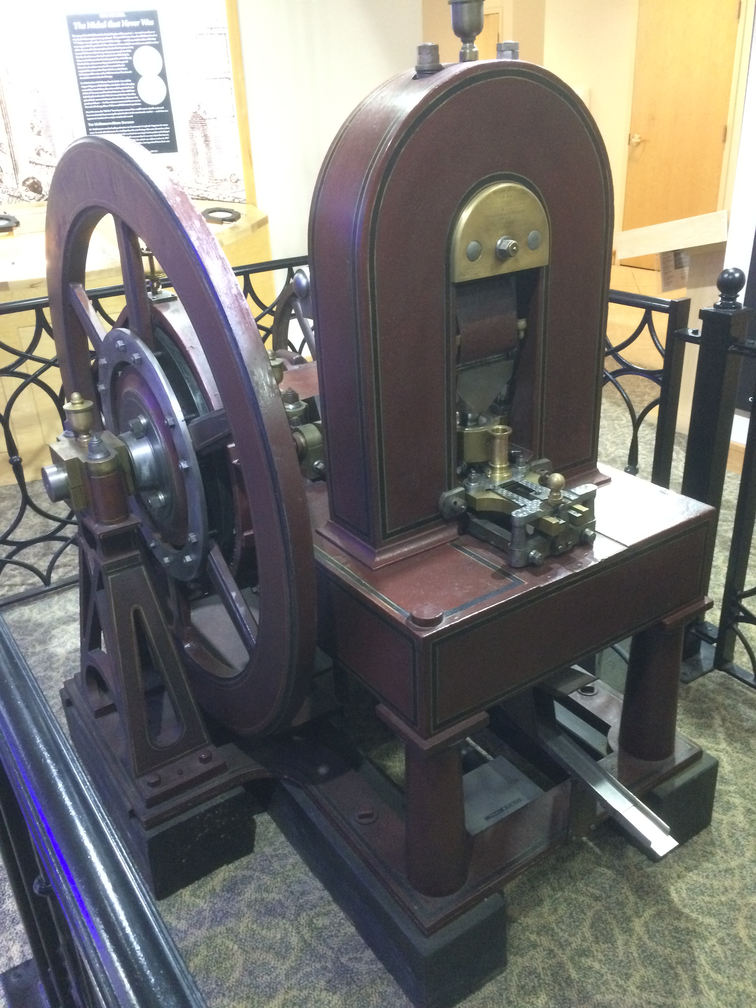 First steam-powered press of the US Mint (1836). Photographed at the ANA Money Museum, Colorado Springs CO